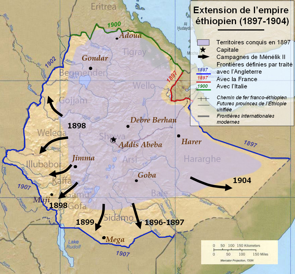 Menelik's campaigns (1879-1889). This is part of a set of three map : Menelik's campaigns (1879-1889) Menelik's campaigns (1889-1896) Menelik's campaigns (1897-1904)